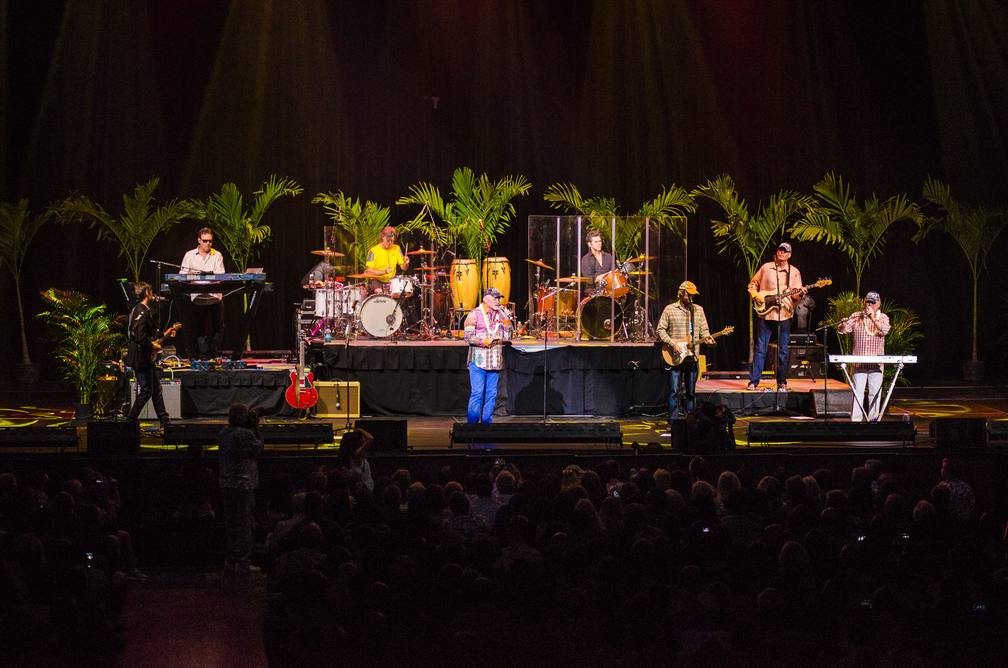 The Beach Boys at Neal S. Blaisdell Center in Honolulu, Hawaii, January 12, 2014. Photo by Peter Chiapperino